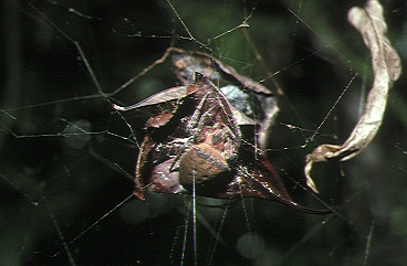 female Cyrtophora unicolor from Okinawa.